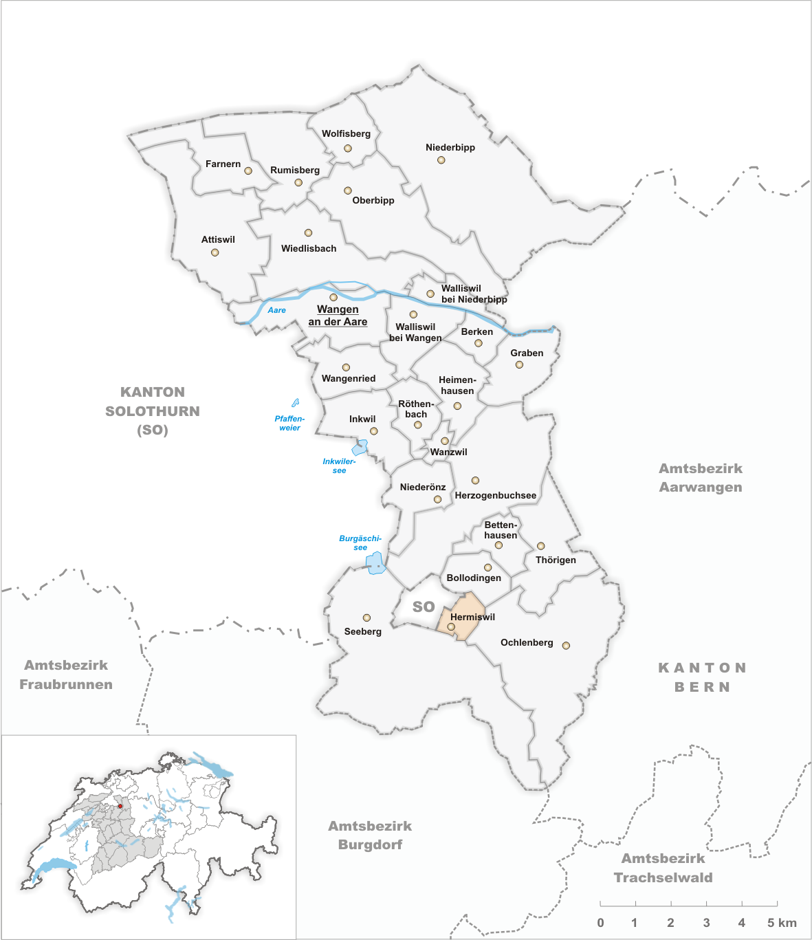 Municipality Hermiswil